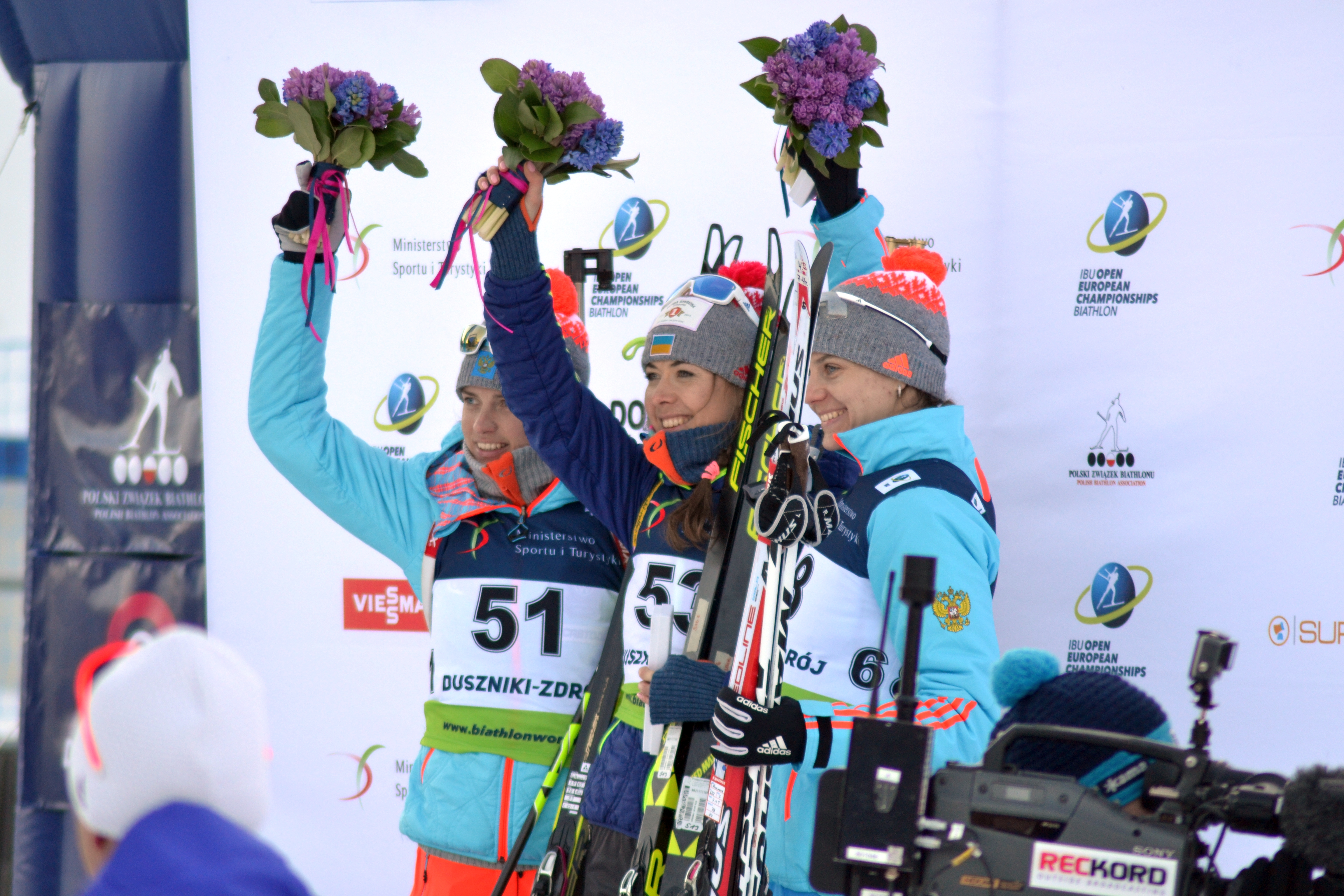 Open European Championships Biathlon 2017, Sprint Women's race, held on January 27th.